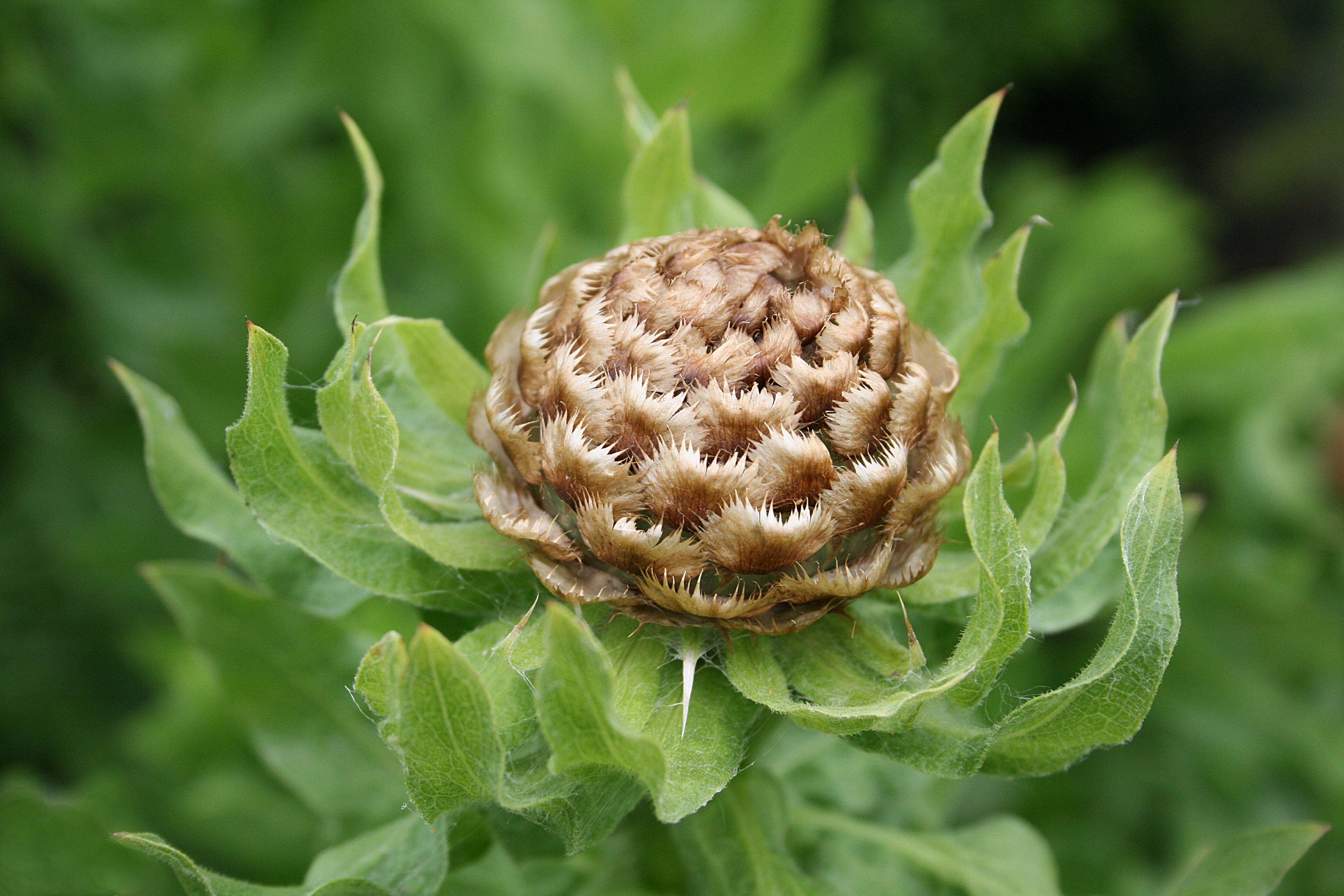 Giant knapweed